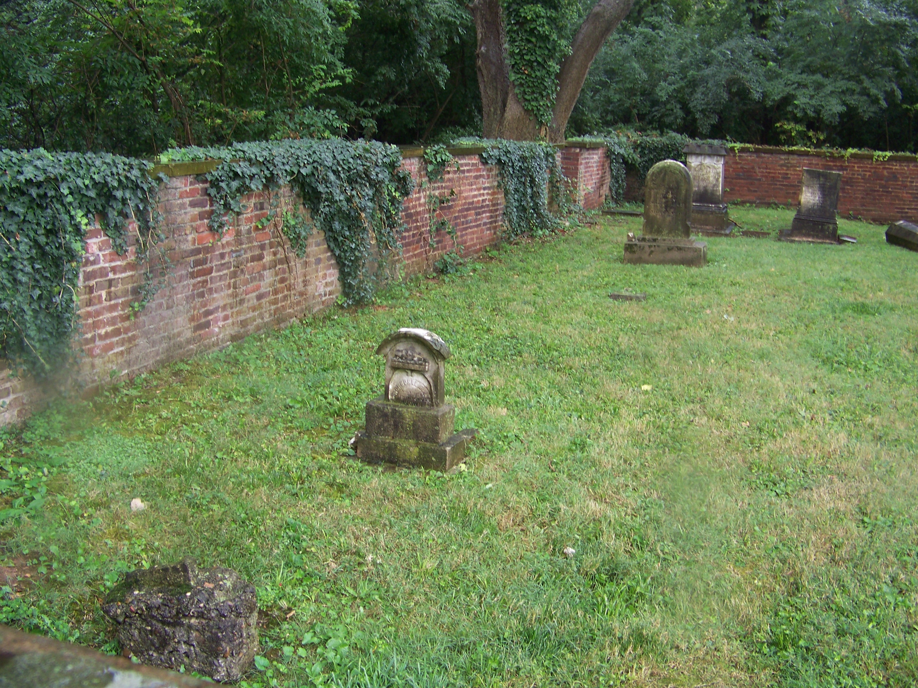 Public area photo taken by self